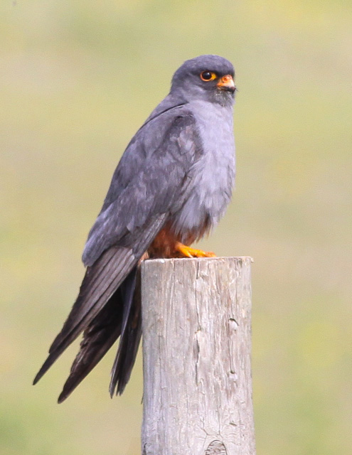 Red-footed Falcon (Falco vespertinus)